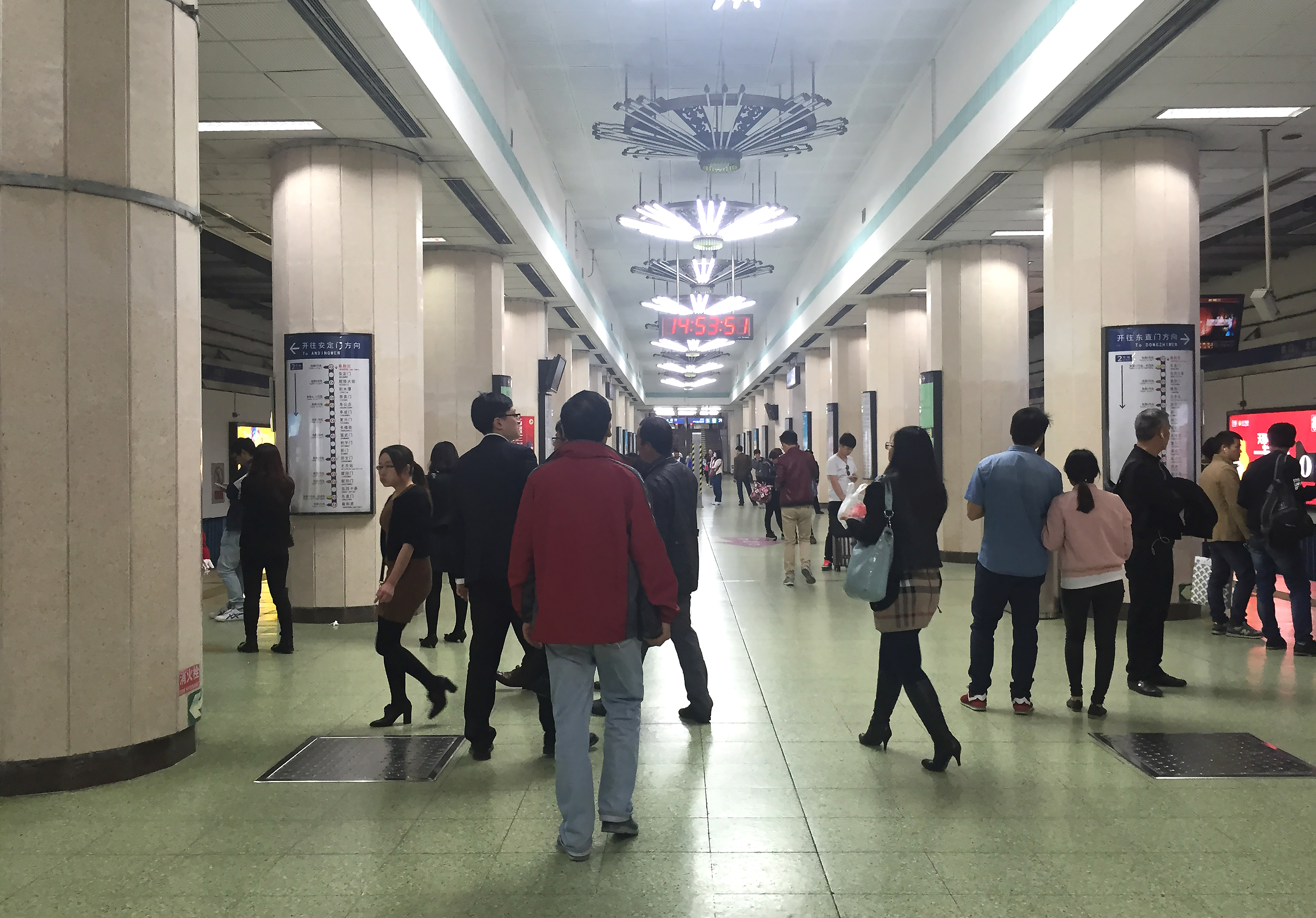 From the west (interchange channel from Line 5).